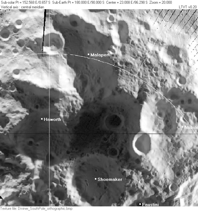 Craters Haworth, Malaparte, Nobile and Showmaker. LRO/Diviner IR temperature/shadow map of south polar region with principal IAU names overlain by LTVT. The white circle is at 85° south latitude. The direction towards Earth is up.